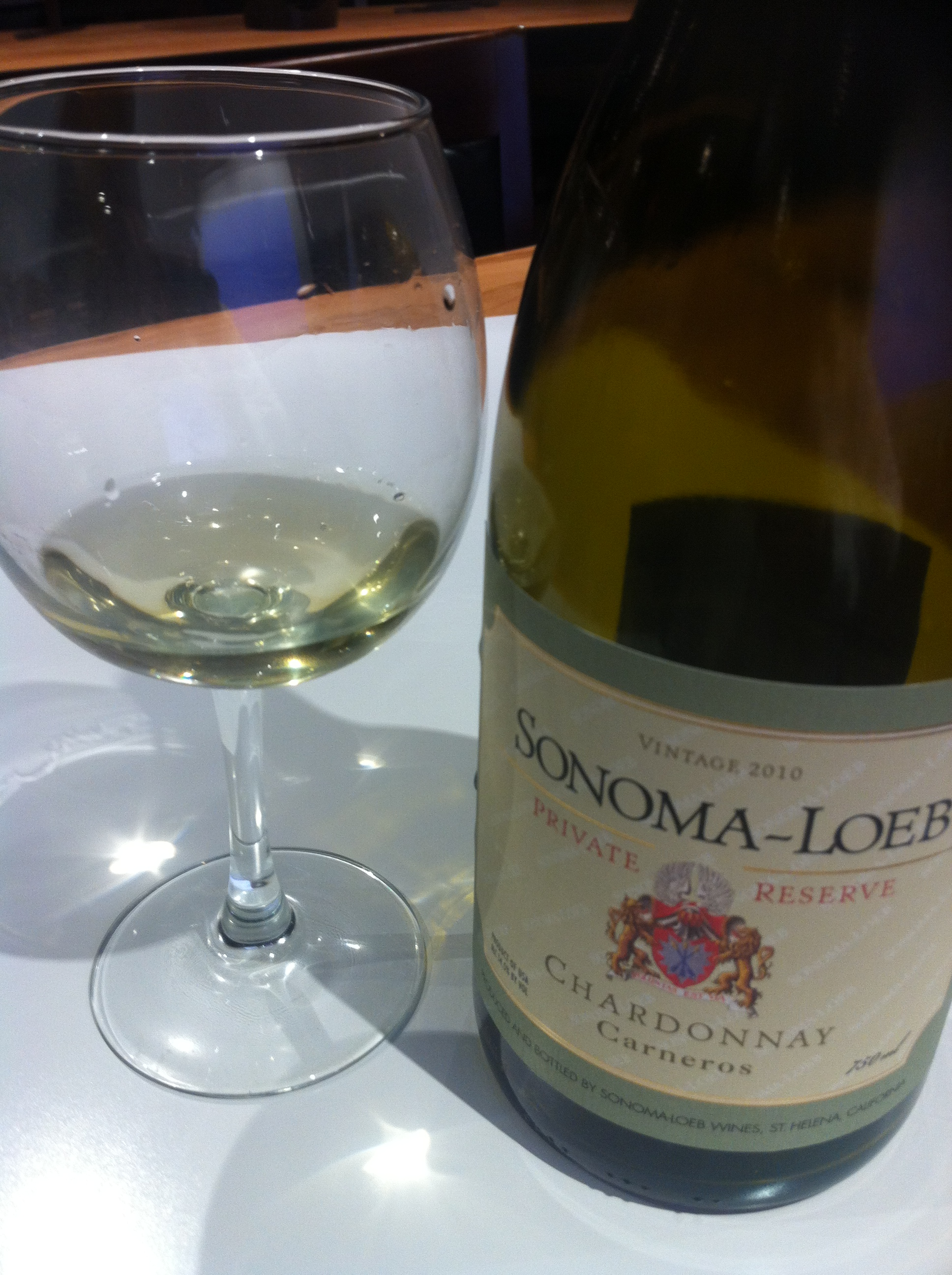 California Chardonnay from the Napa/Sonoma wine region of Carneros